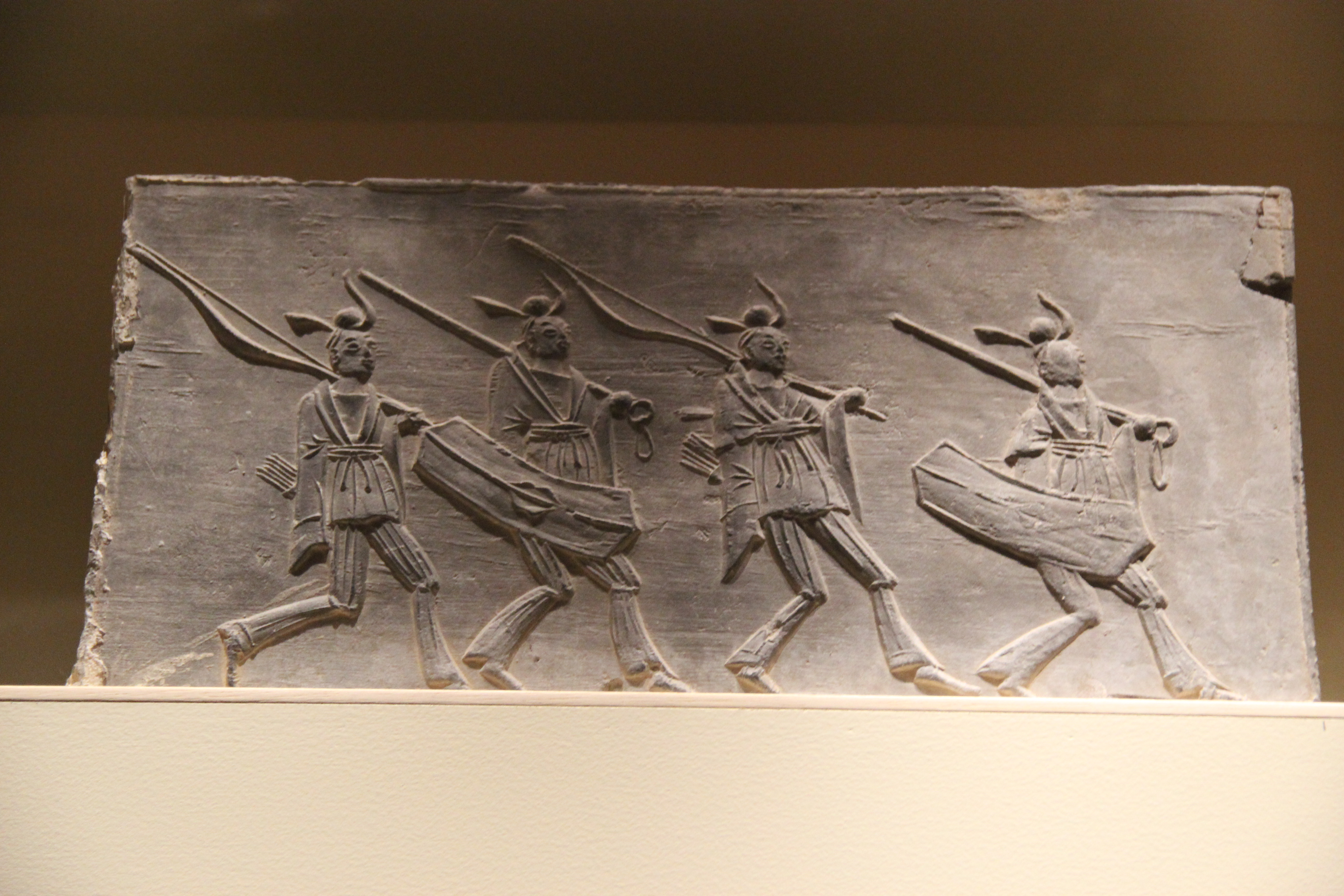 A Southern Dynasty brick relief displayed in Dengxian, Henan, 1958. National Museum: China through the Ages, Exhibit 5.